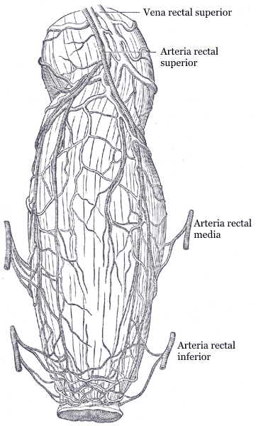 The bloodvessels of the rectum and anus, showing the distribution and anastomosis on the posterior surface near the termination of the gut. (Poirier and Charpy)